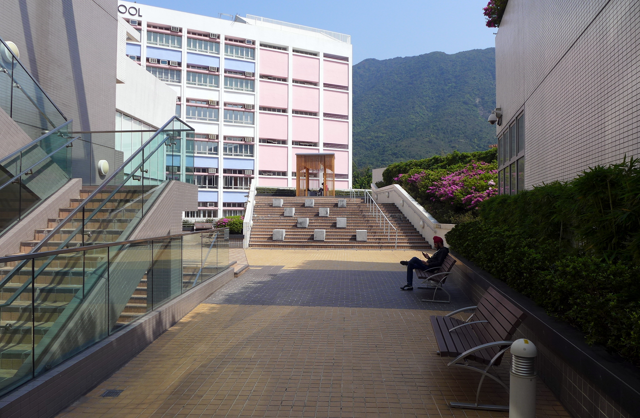 Tung Chung Municipal Services Building Outdoor Garden